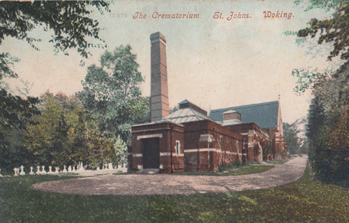 Woking Crematorium as shown in an early 20th century post card.